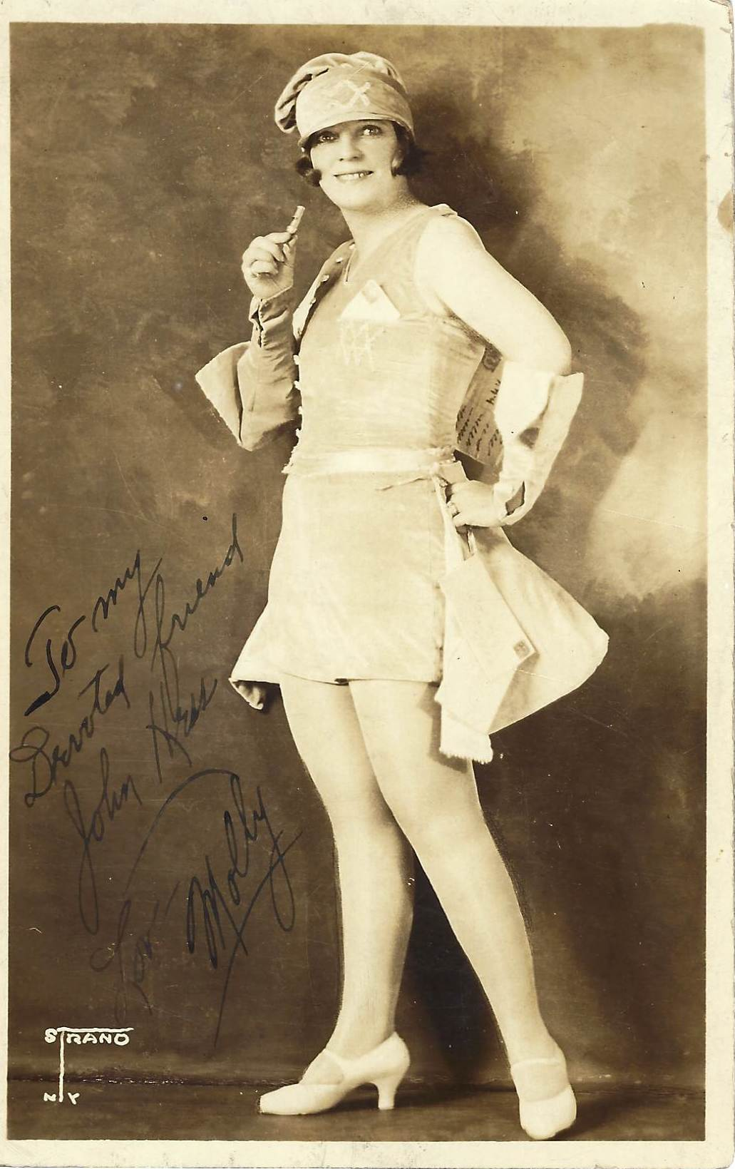 Mollie Williams--producer, writer, and star of her own burlesque comedy show on the Columbia Wheel--shown here in her postal worker costume.